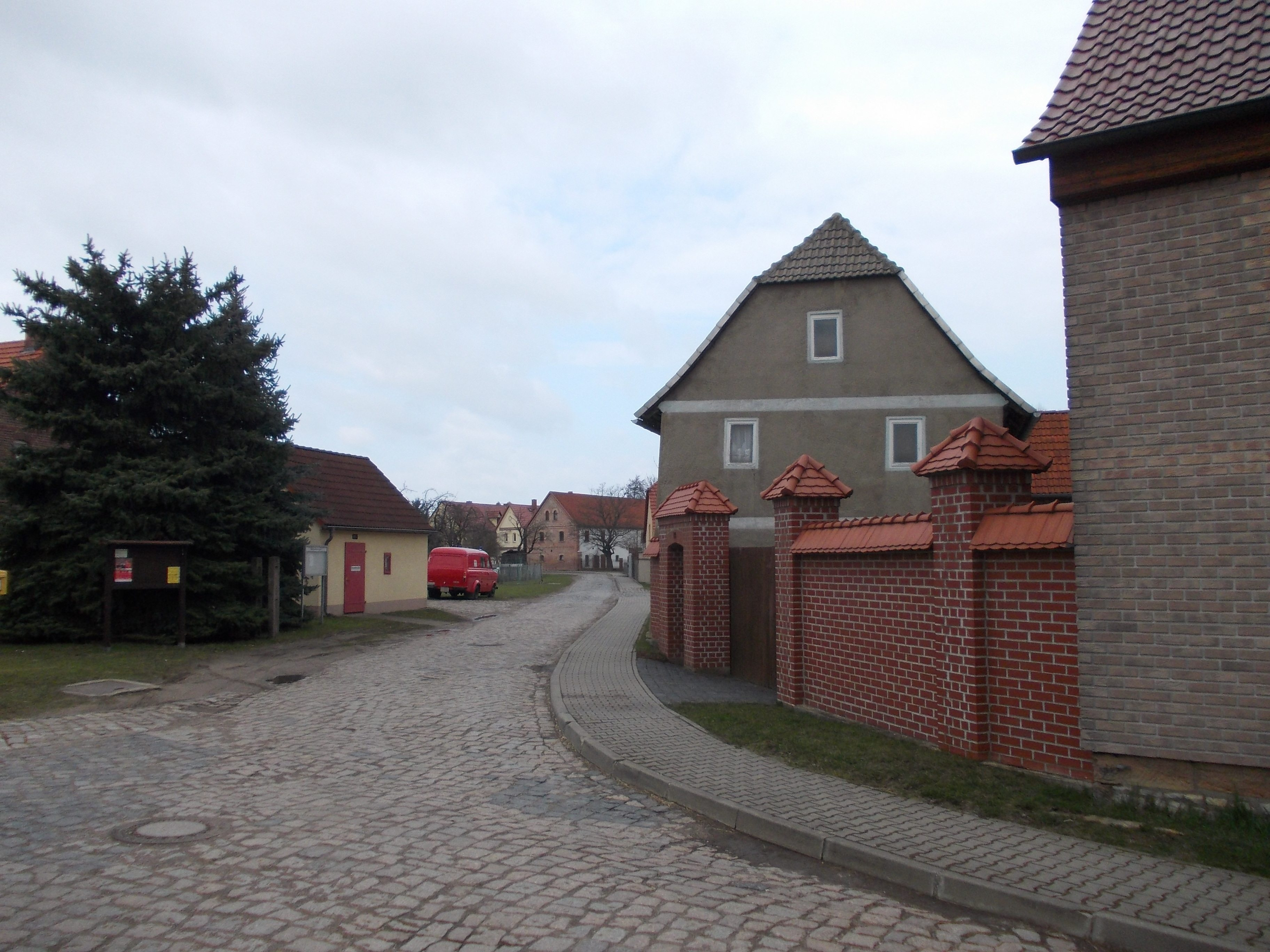 In Rodden (Leuna, district of Saalekreis, Saxony-Anhalt)